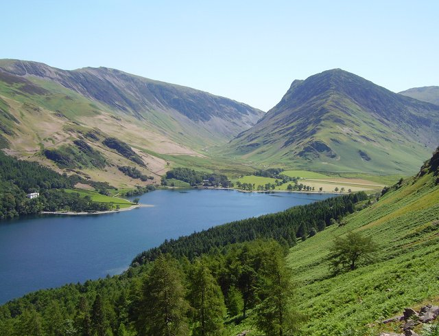 Buttermere Landscape modified by glaciers. View beyond the lake to Fleetwith Pike and Dale Head.